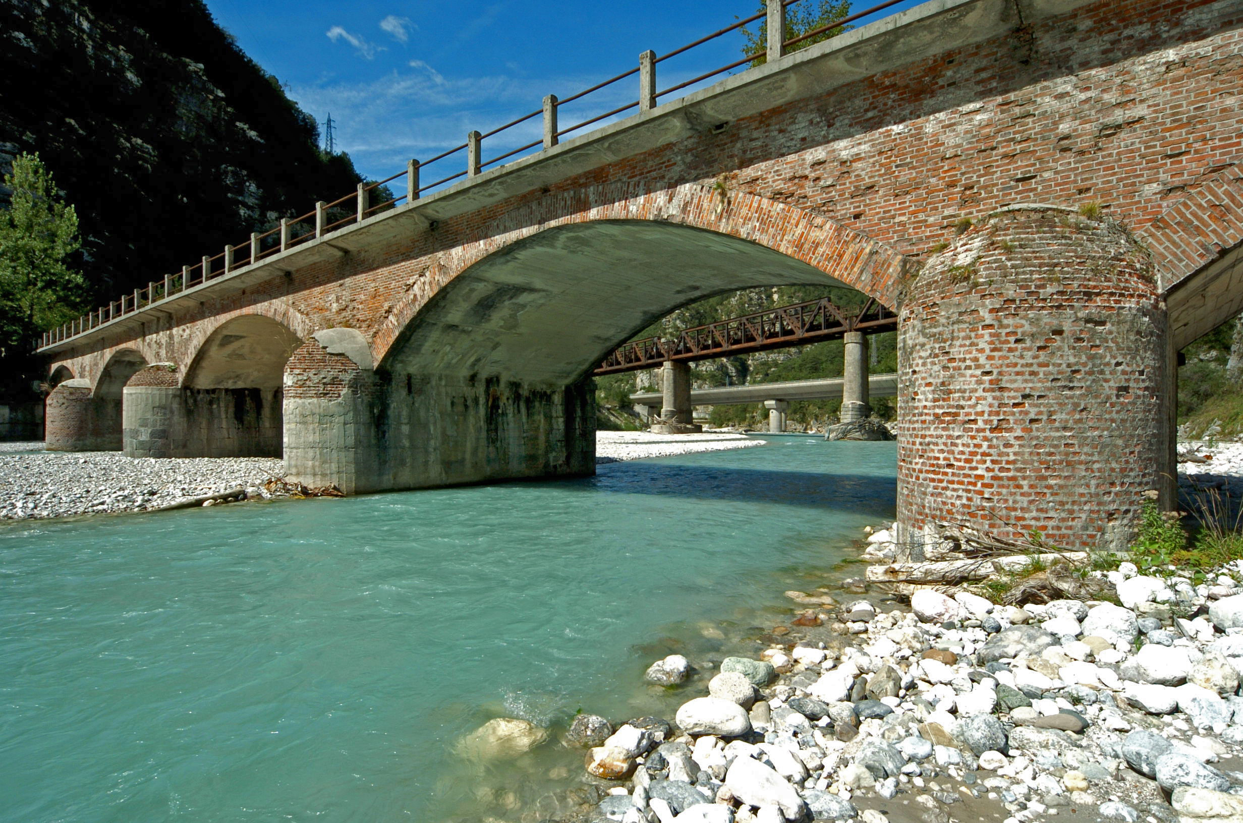 Old, defunct road bridge across the river Fella in the community Chiusaforte, region Friuli Venezia-Giulia, Italy